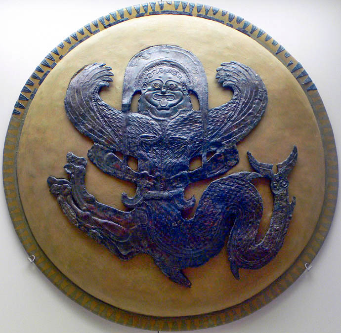 Shield depicting a winged gorgon with the tail of a fish and lion feet. 2nd half of the 6th century B.C. Archaeological Museum of Olympia.